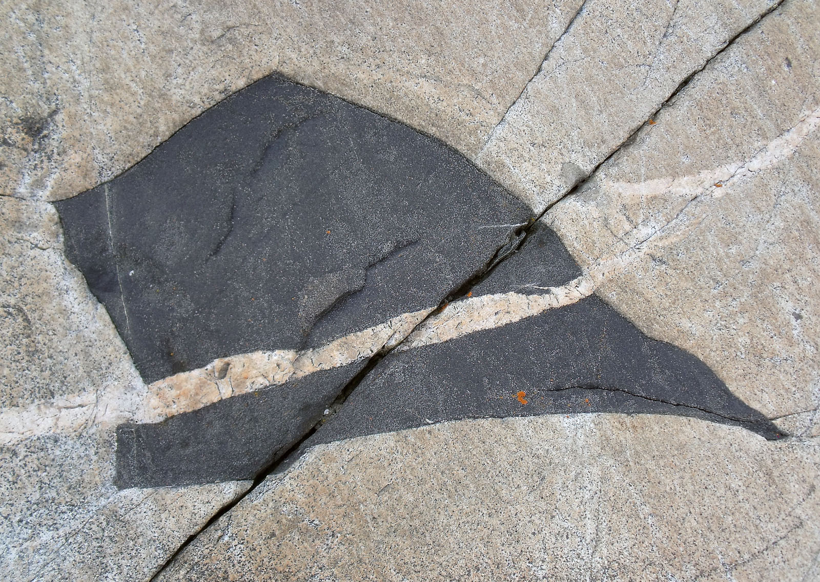 A granite pluton can carry a flotilla of rafted rocks. On this oceanside granite islet are many types of rock xenoliths of all shapes and sizes, from fresh-looking to nearly absorbed. Some are angular basalt boulders, this one is 3 ft or 1 m across.